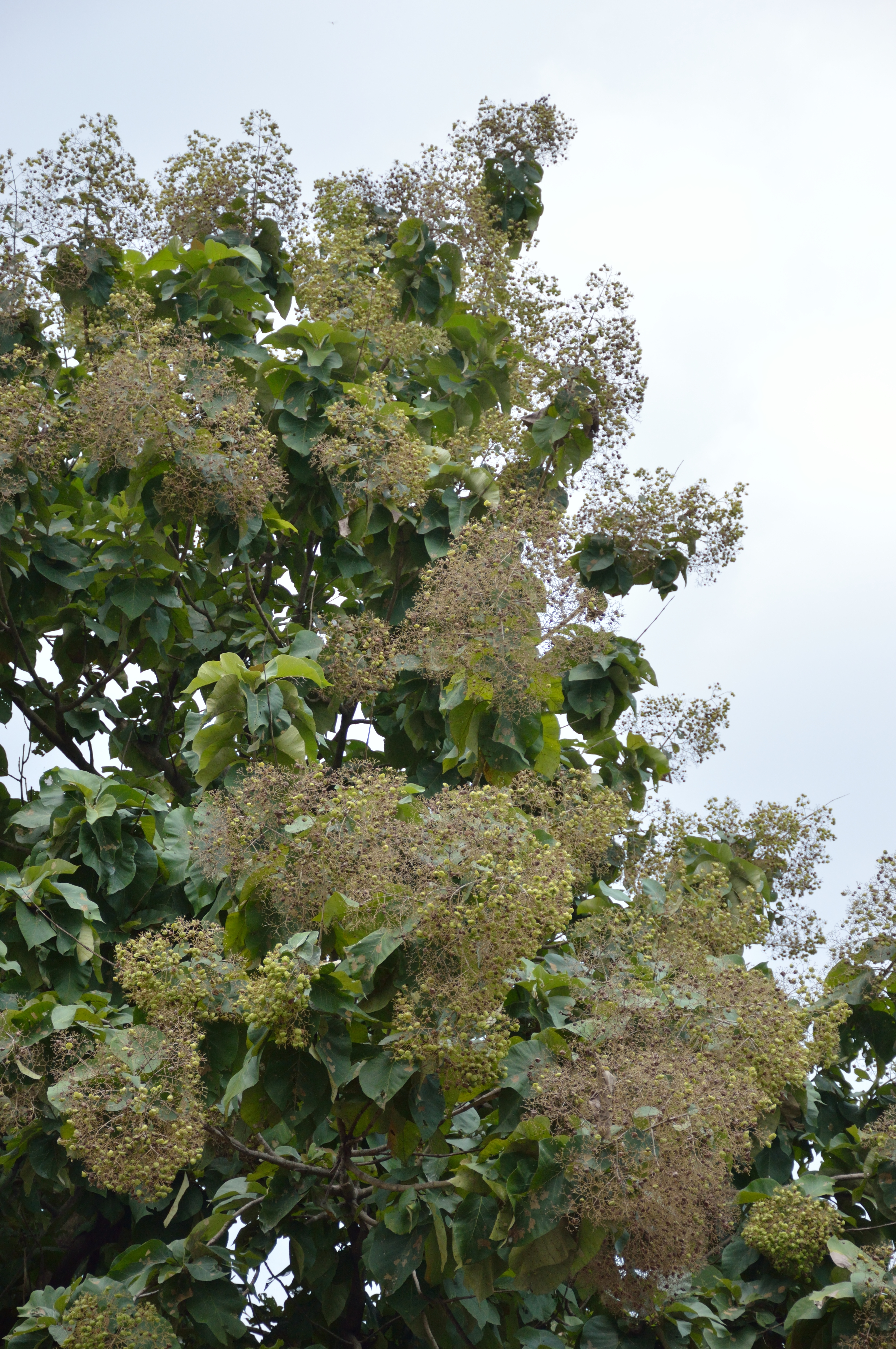 Teak (bn: Segun) is the common name for the tropical hardwood tree species Tectona grandis and its wood products. Tectona grandis is native to south and southeast Asia, mainly India, Indonesia, Malaysia, and Myanmar. This photograph has been taken at the Hijli college campus, West Midnapore.